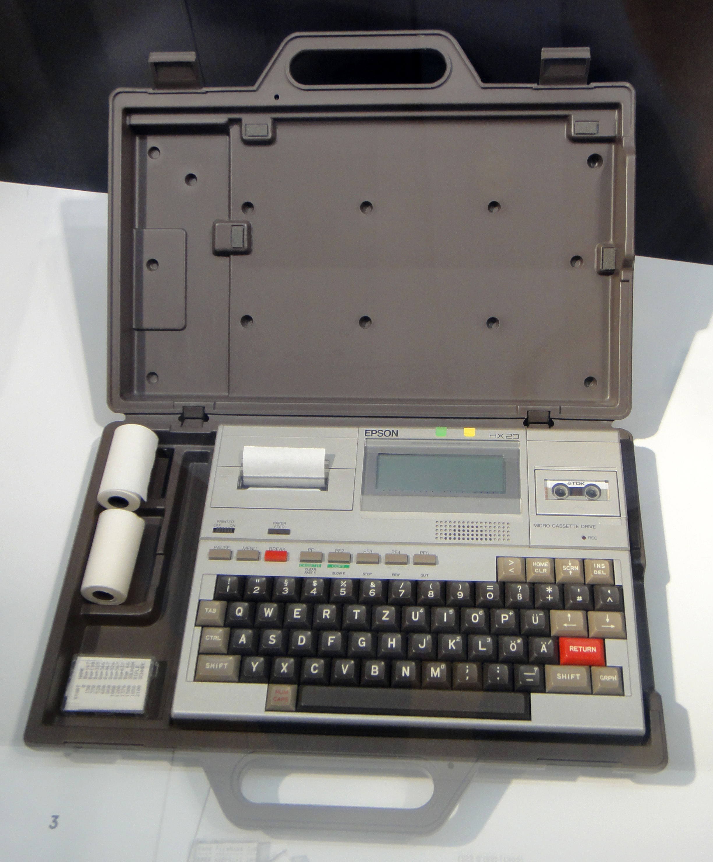 Epson HX-20 portable computer in plastic case with paper rolls.